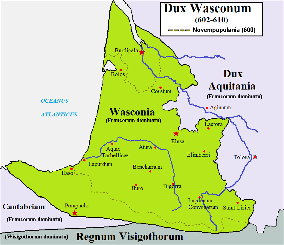 THIS MAP IS IN LATIN